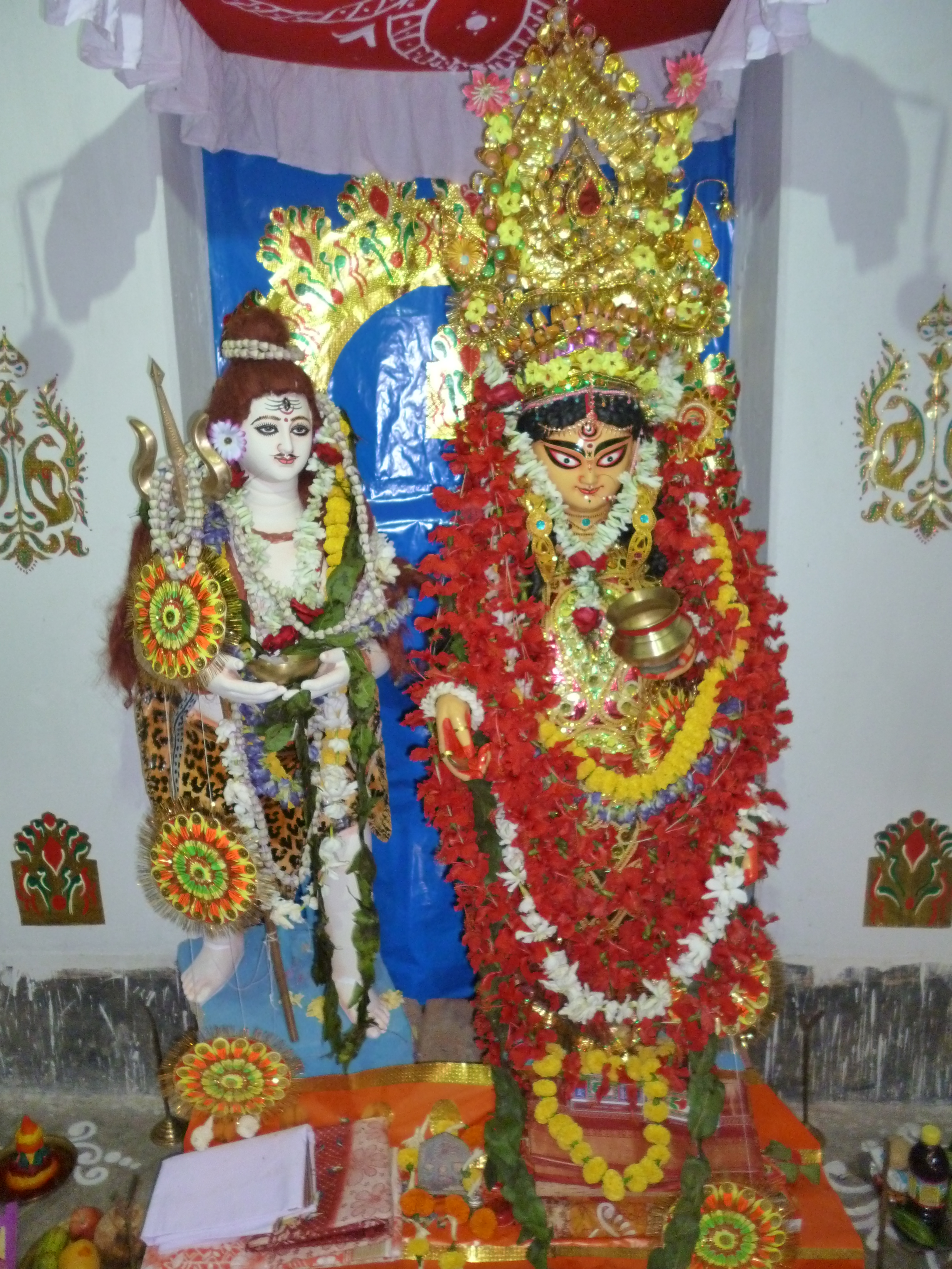 Mother Goddess being worshipped with pomp in Kolkata,India. Traditional Bengali school of Idol, with Lord Shiva.